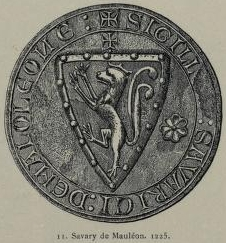 Seal of Savary de Mauléon, 1225, reproduced in Histoire générale du Languedoc vol. 16 (1904)